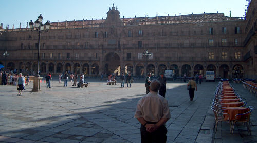 Illustration of an image with an aspect ratio of 16:9 (1:1.77)